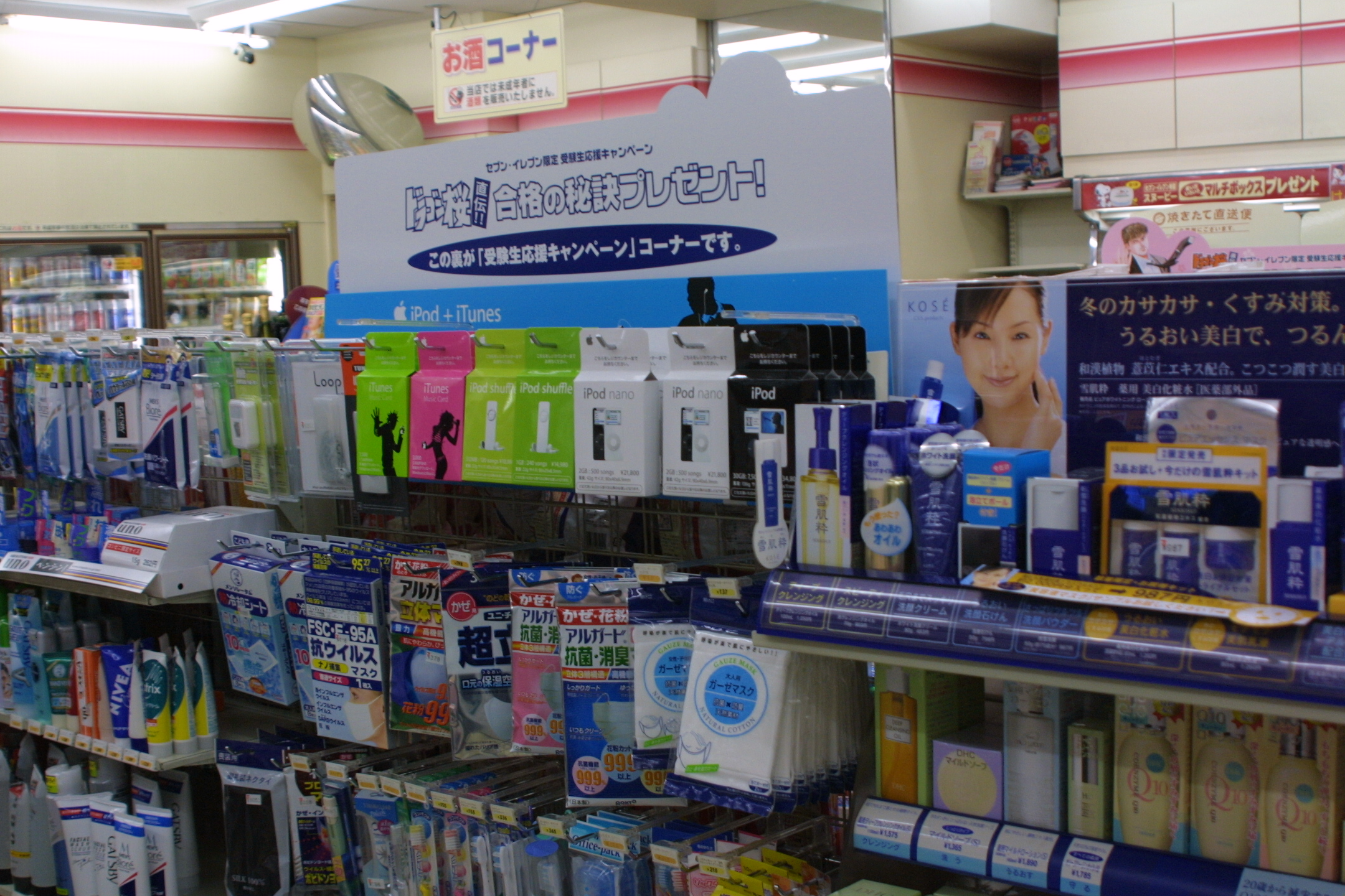 IPods sold at Seven-Eleven (right between toothpaste and shampoo)! ドラゴン桜 コーセー 小西真奈美